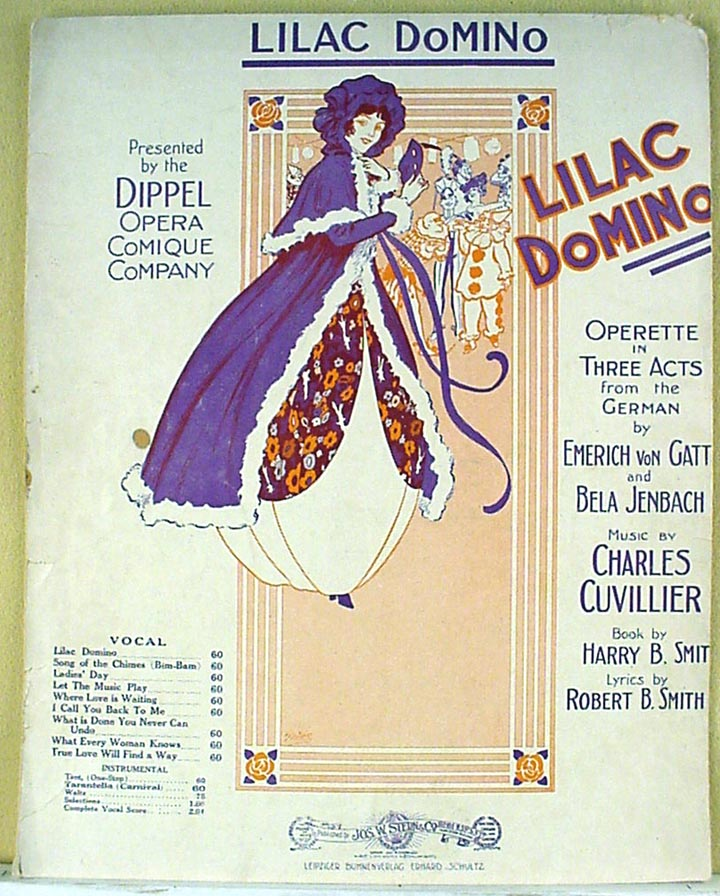 1914 sheet music from Lilac Domino, New York City